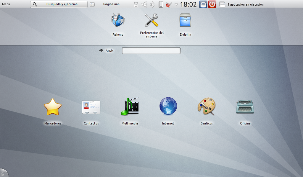 Default configuration of Kubuntu 12.10 using netbook workspace